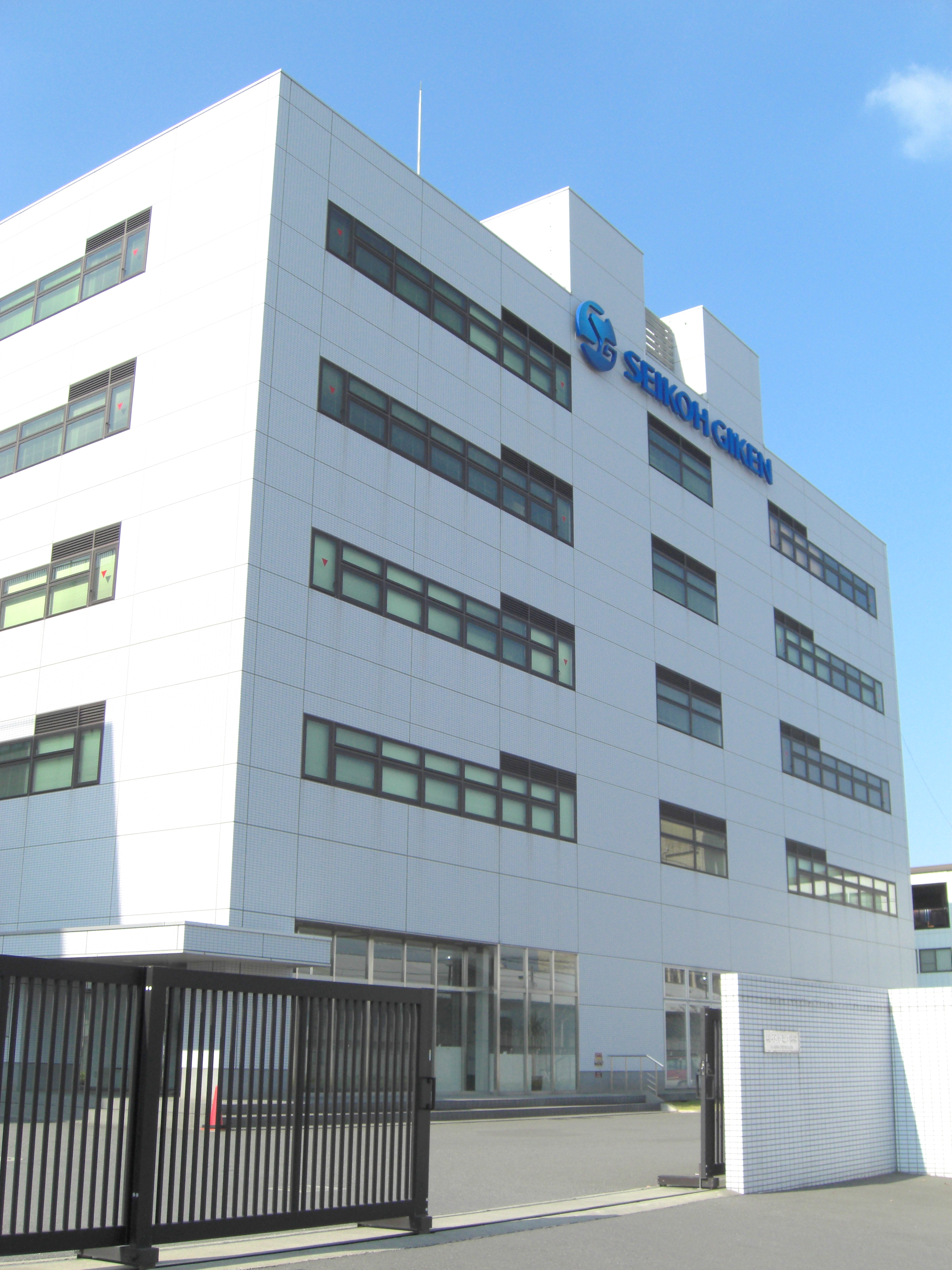 Seikoh Giken head office